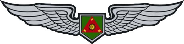 Philippine Army Aviation Service Pilot's Badge